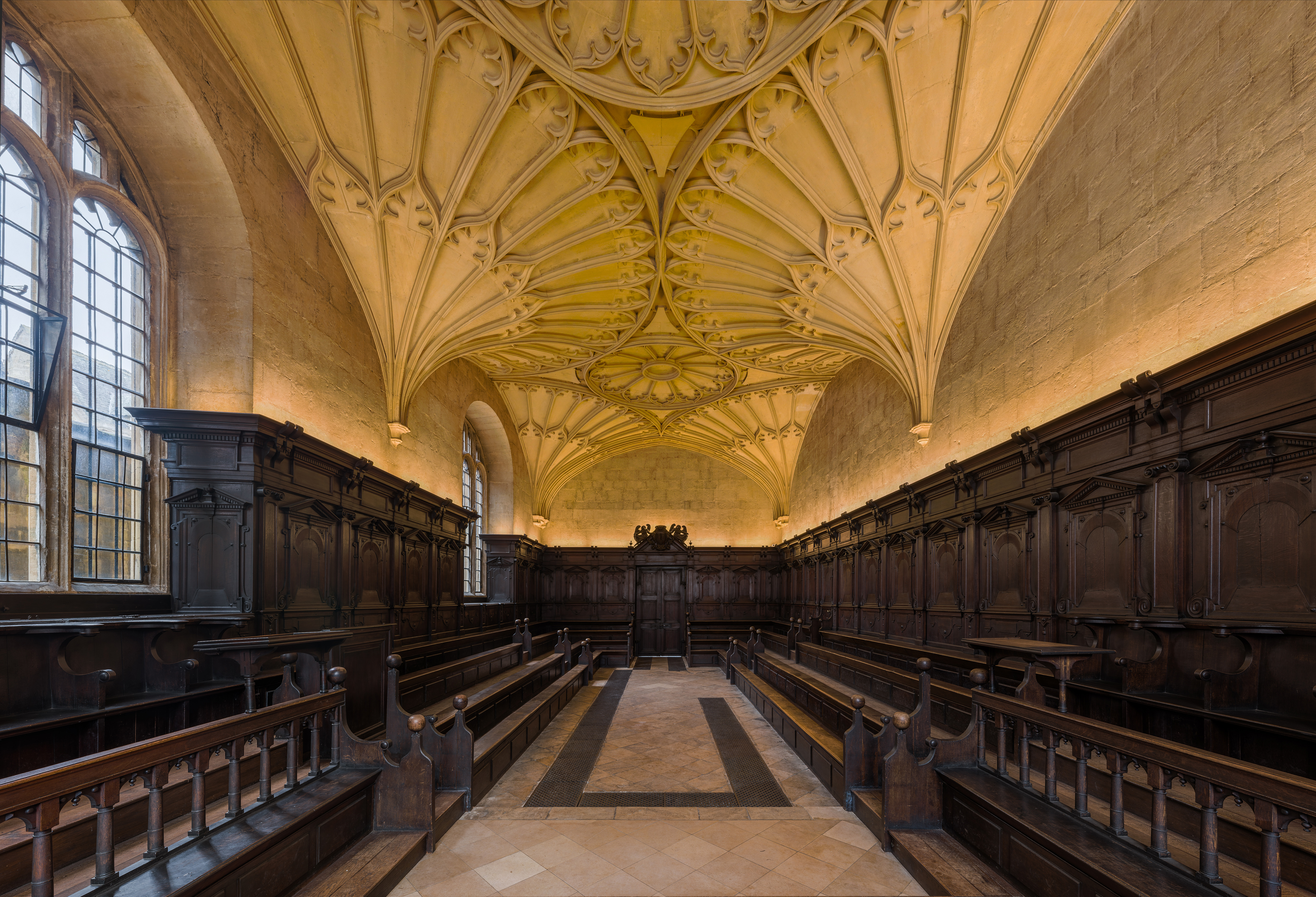 The interior of Convocation House looking north. Convocation House is part of the Bodleian Library and was formerly a meeting chamber for the House of Commons during the English Civil War.